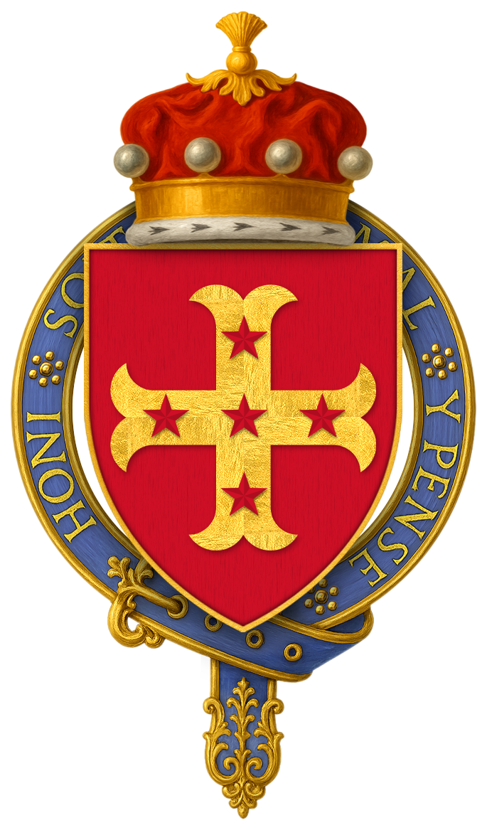 Coat of Arms of Sir Thomas Ughtred, 1st Baron Ughtred, KG (1292 – 1365). “ Thomas Lord Ughtred… Arms: Gules, a cross Moline Or charged with five mullets of the field. ” BELTZ, George Frederick, Memorials of the Order of the Garter from Its Foundation to the Present Time, London: William Pickering, 1841.